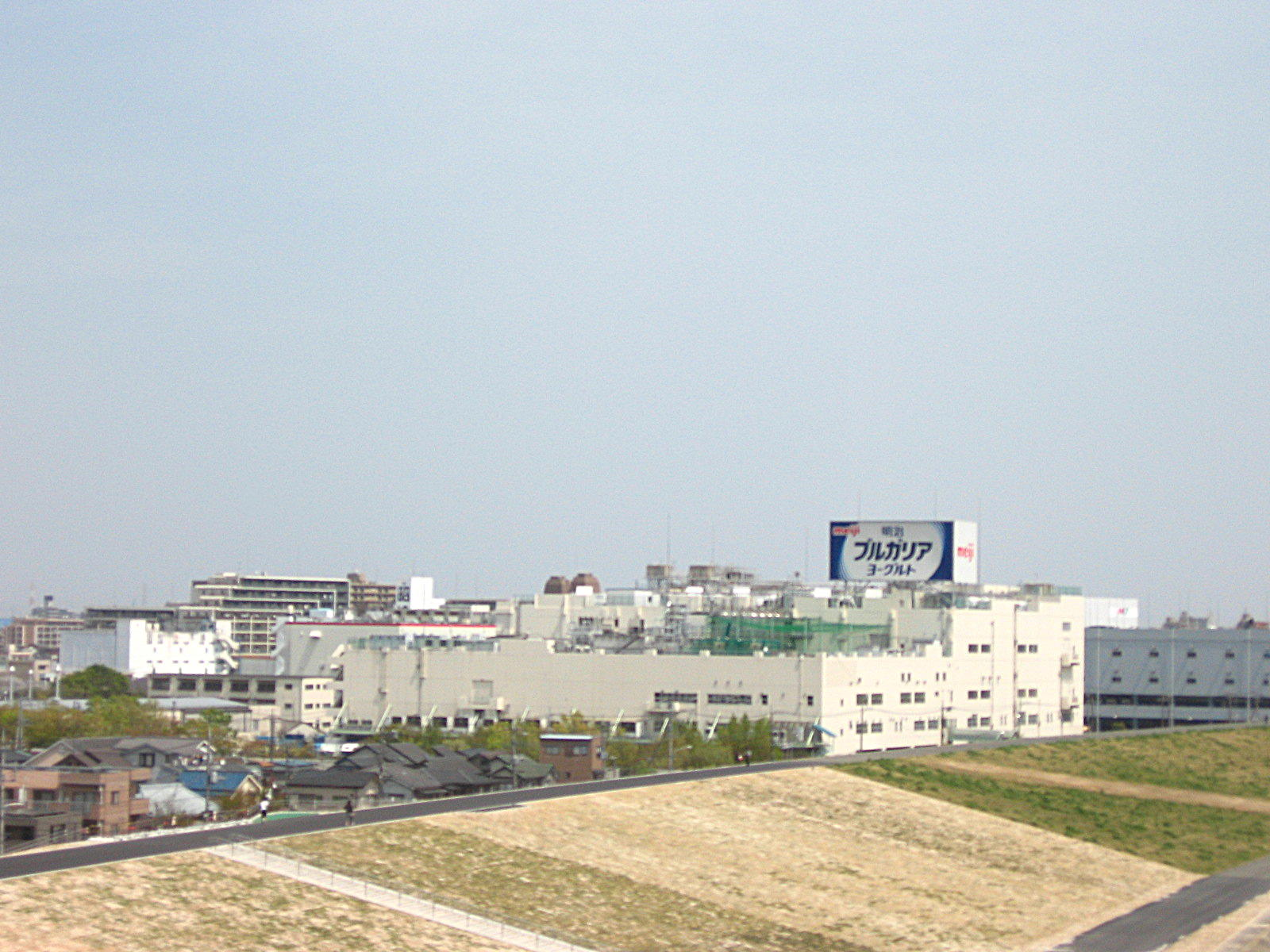 Meiji Corporation Toda factory from Toda, Saitama.